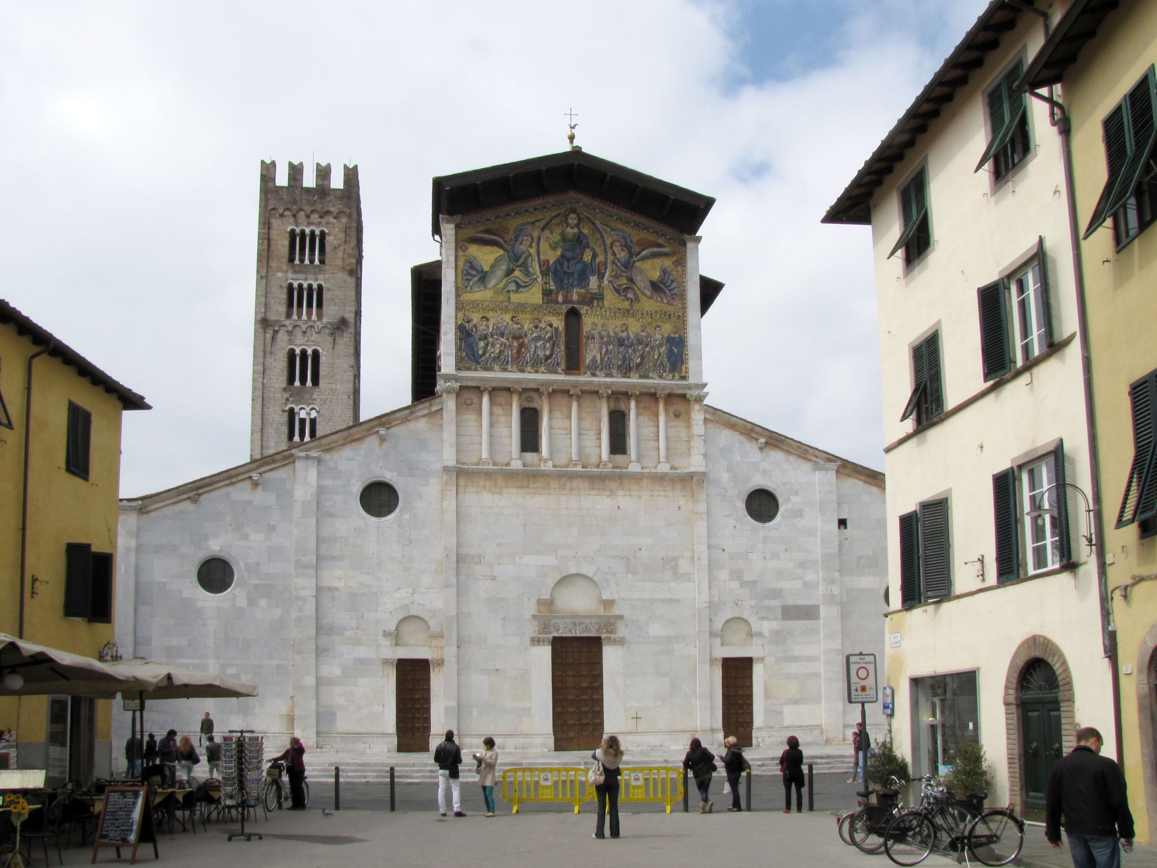 The Basilica of San Frediano, Piazza San Frediano, Lucca